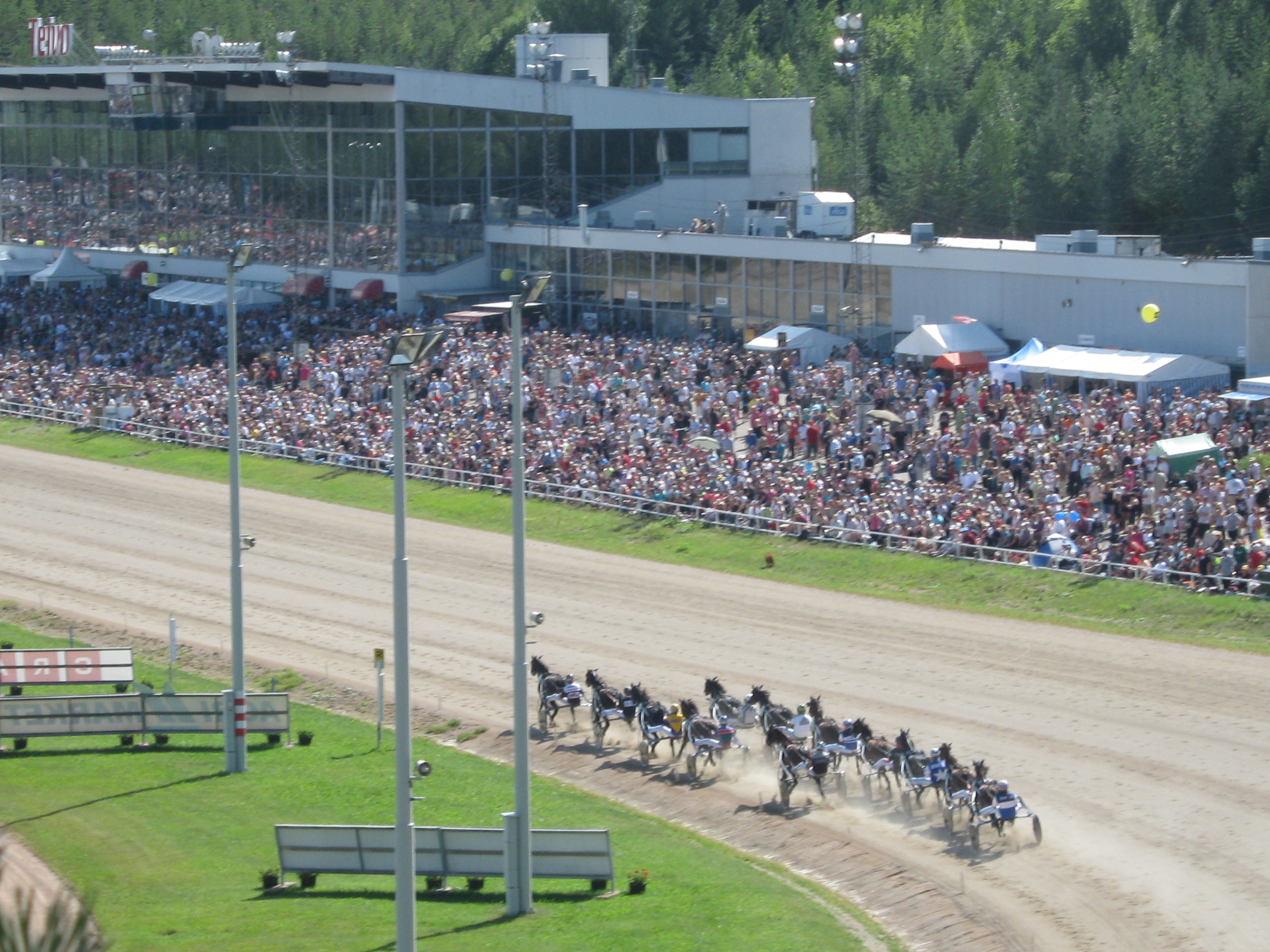 Kuninkuusravit 2011 at Teivo Race Track, Tampere, Finland.